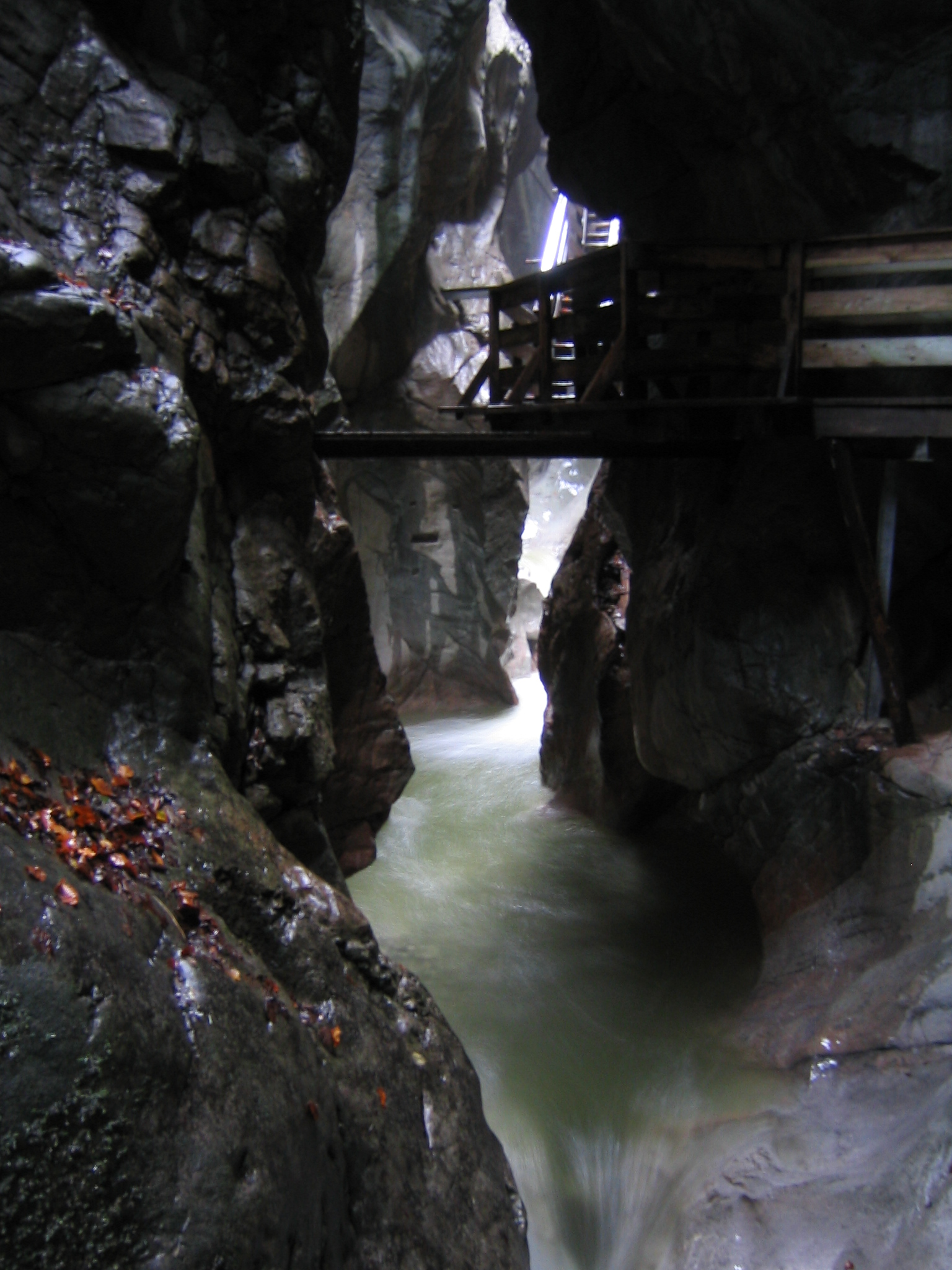 Seisenbergklamm, Salzburger Land This media shows the natural monument in Salzburg with the ID NDM00138.